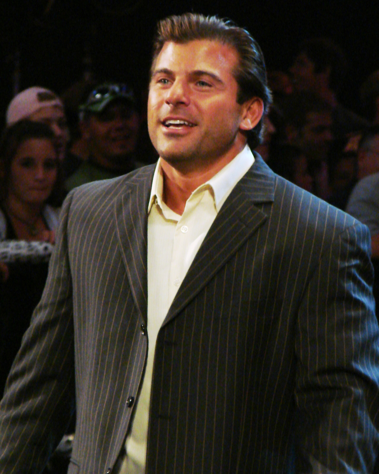 Matt Striker at a WWE SmackDown taping. i wireless Center; Moline, Illinois. Taken by myself, rotated and cropped.